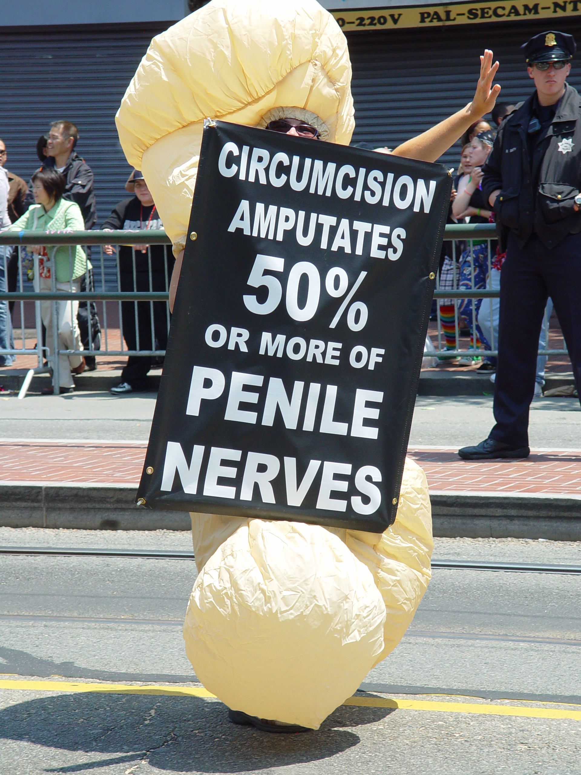 An anti-circumcision protestor at the 2008 Gay Pride Parade in San Francisco